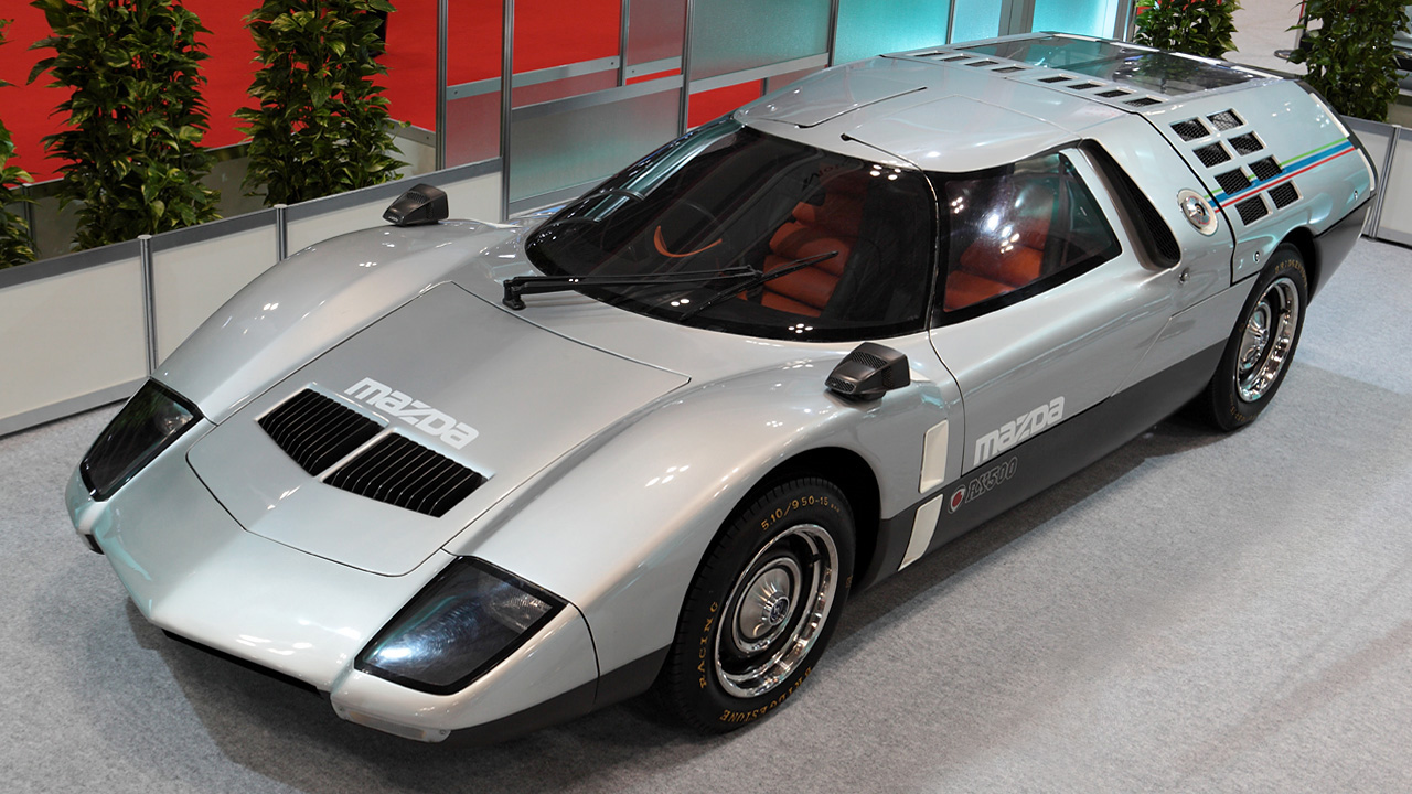 Mazda RX-500 at the 2009 Tokyo Motor Show.